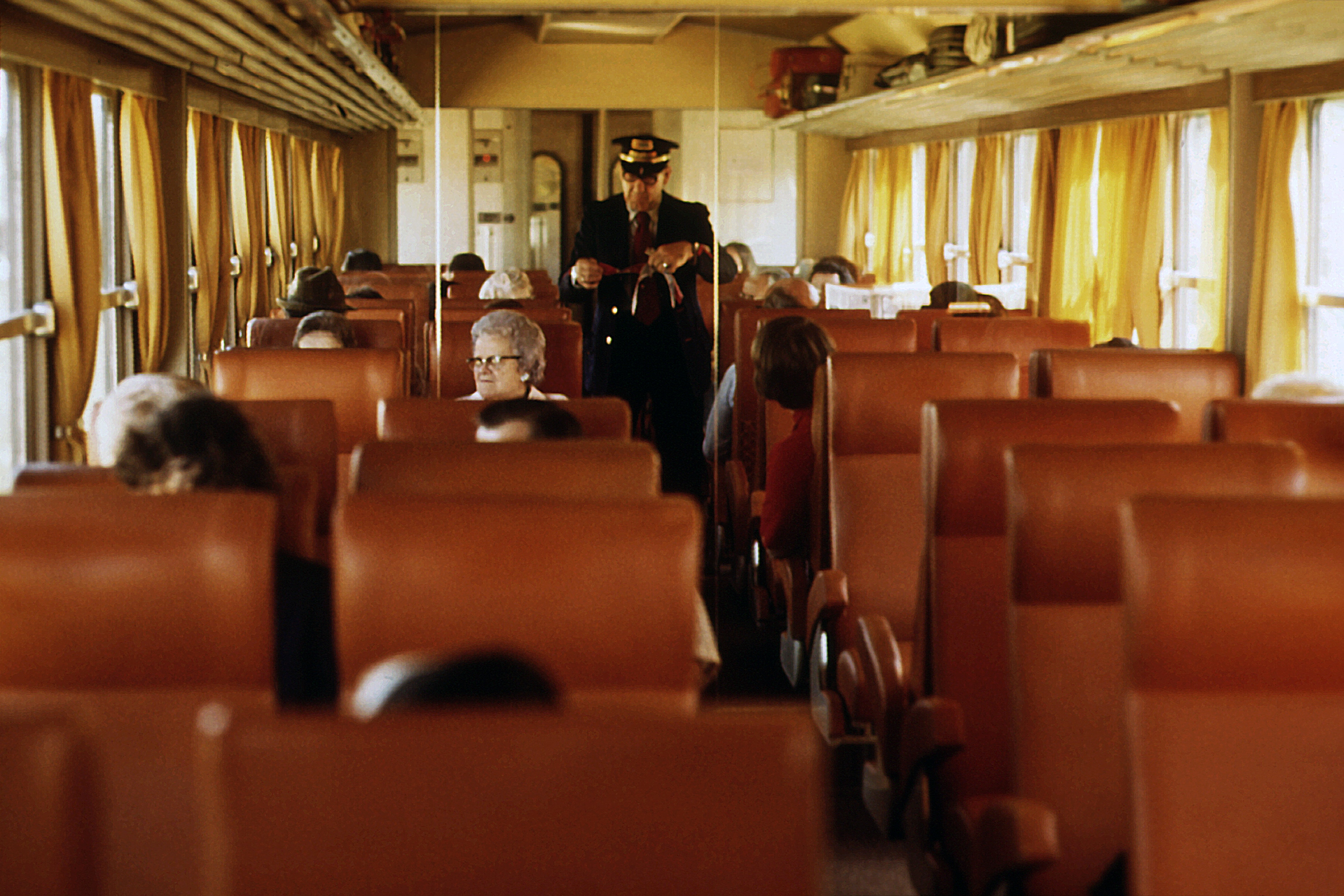 A conductor makes his rounds taking tickets as the Turboliner makes its way between St. Louis, Missouri, and Chicago, Illinois. Two Turboliners were leased from the French and began service in October 1973. After eight months of trial, Amtrak officials purchased them and ordered an additional eleven. It is part of the corporation's continuing effort to upgrade equipment inherited from the nation's railroads.